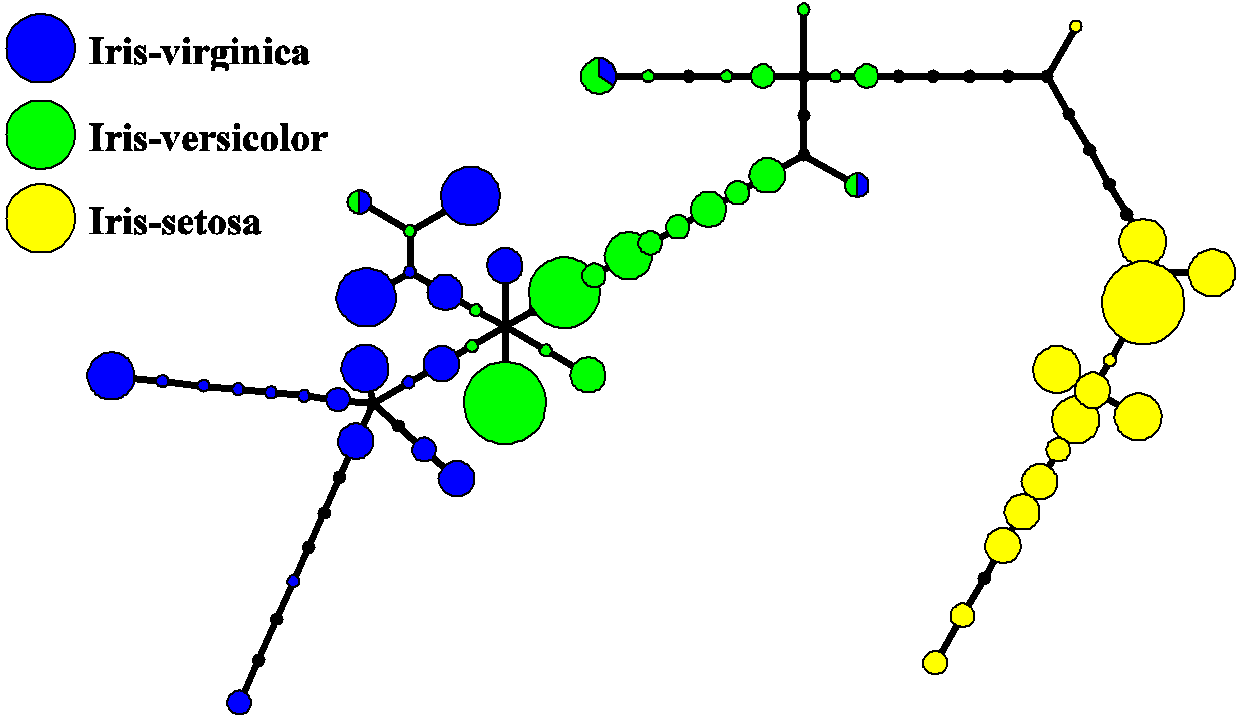 An example of the so-called "metro map" for the classical Iris flower data set [1]. The data set is approximated by the closest tree with some penalty for the excessive number of nodes, bending and stretching. The data points are projected into the closest node. For each node, the pie diagram of the projected points is prepared. The area of the pie is proportional to the number of the projected points. It is clear that the absolute majority of the samples of the different Iris species belong to the different nodes. Only a small fraction of Iris-virginica is mixed with Iris-versicolor (the mixed blue-grin nodes in the Fig.). Therefore, the three species of Iris (Iris setosa, Iris virginica and Iris versicolor) are separable by the unsupervising procedures of nonlinear principal component analysis. To discriminate them, it is sufficient just to select the corresponding nodes on the principal tree.